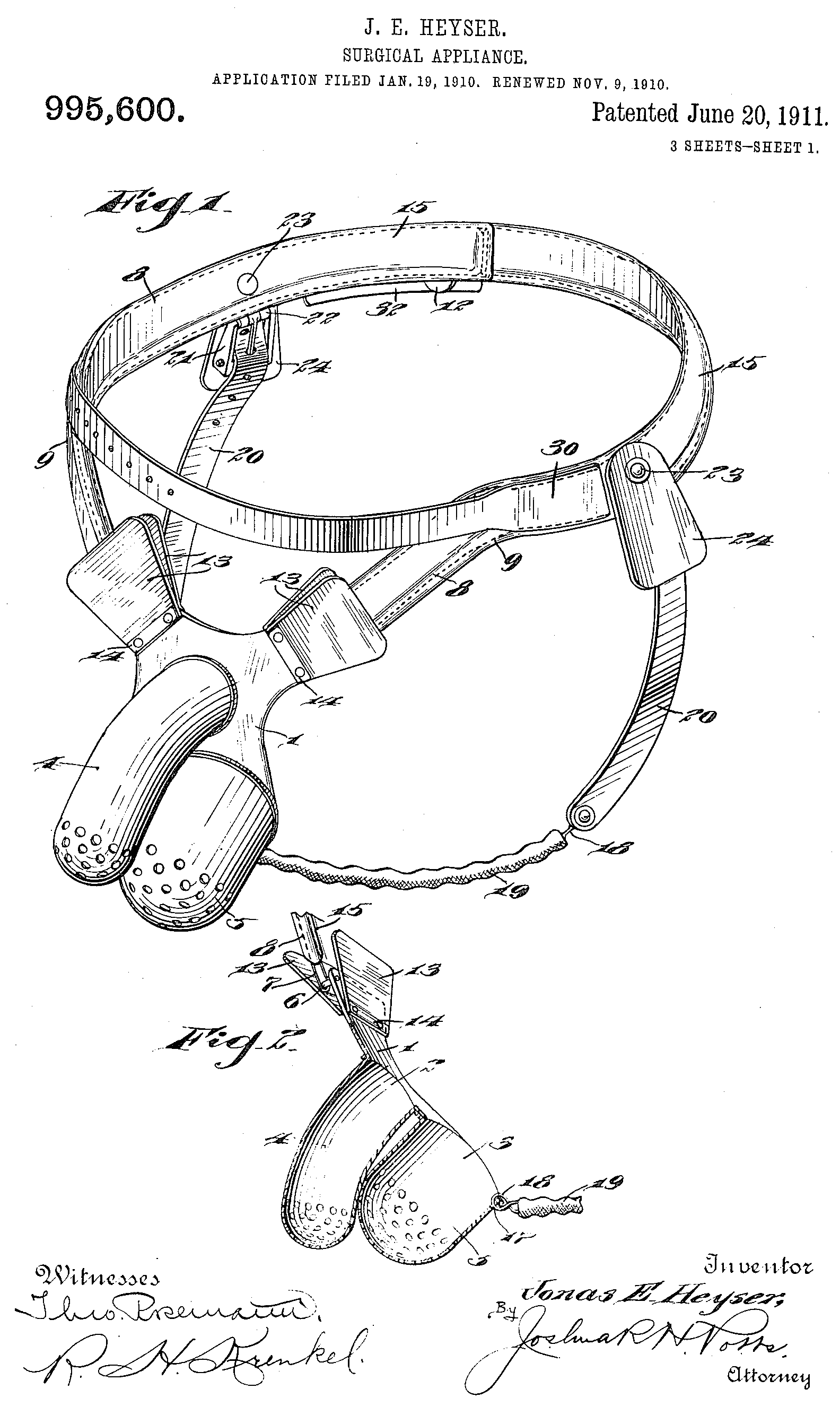 Surgical Appliance, Patent No. 995,600